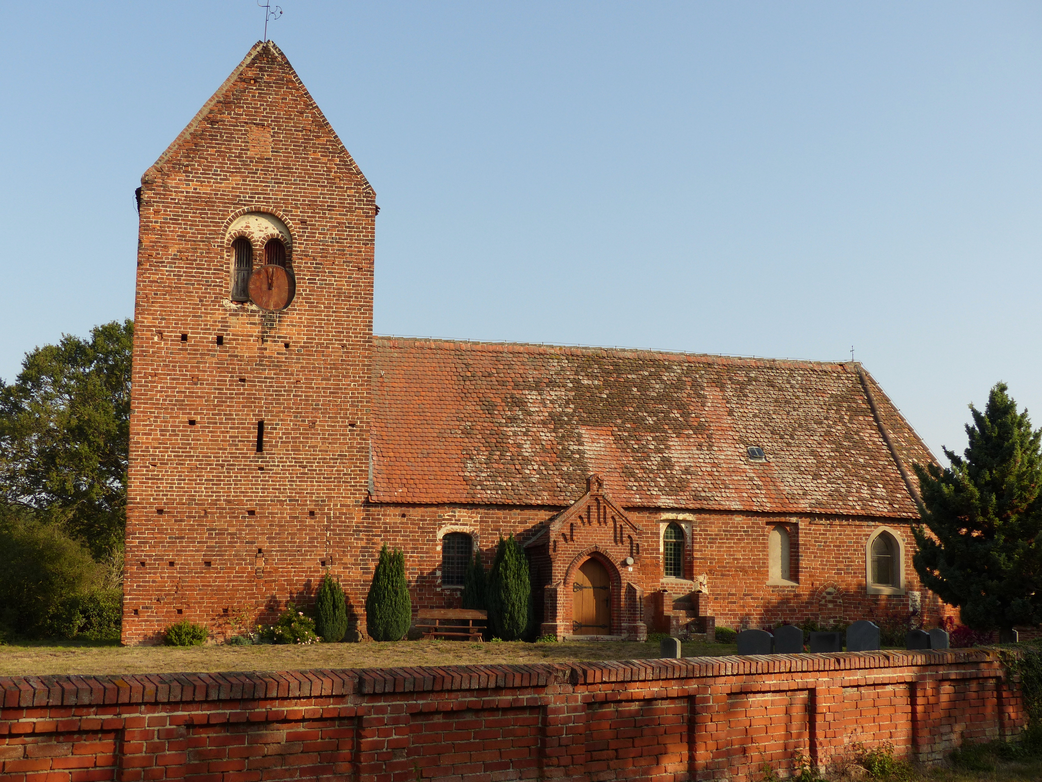 Brick Gothic village church of Wolterslage, municipality of Königsmark, Landkreis Stendal